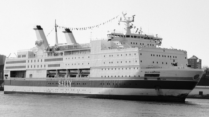 Cruiseferry MS Sally Albatross of Viking Line in Stockholm. The ship was built in 1980 and originally called Viking Saga. It was renamed Sally Albatross in 1986. It was ruined by a fire while dry docked for maintenance in 1990. Parts of the hull (car deck and below) and all four engines were used in building a new Sally Albatross that was sold to Silja Line in 1992.